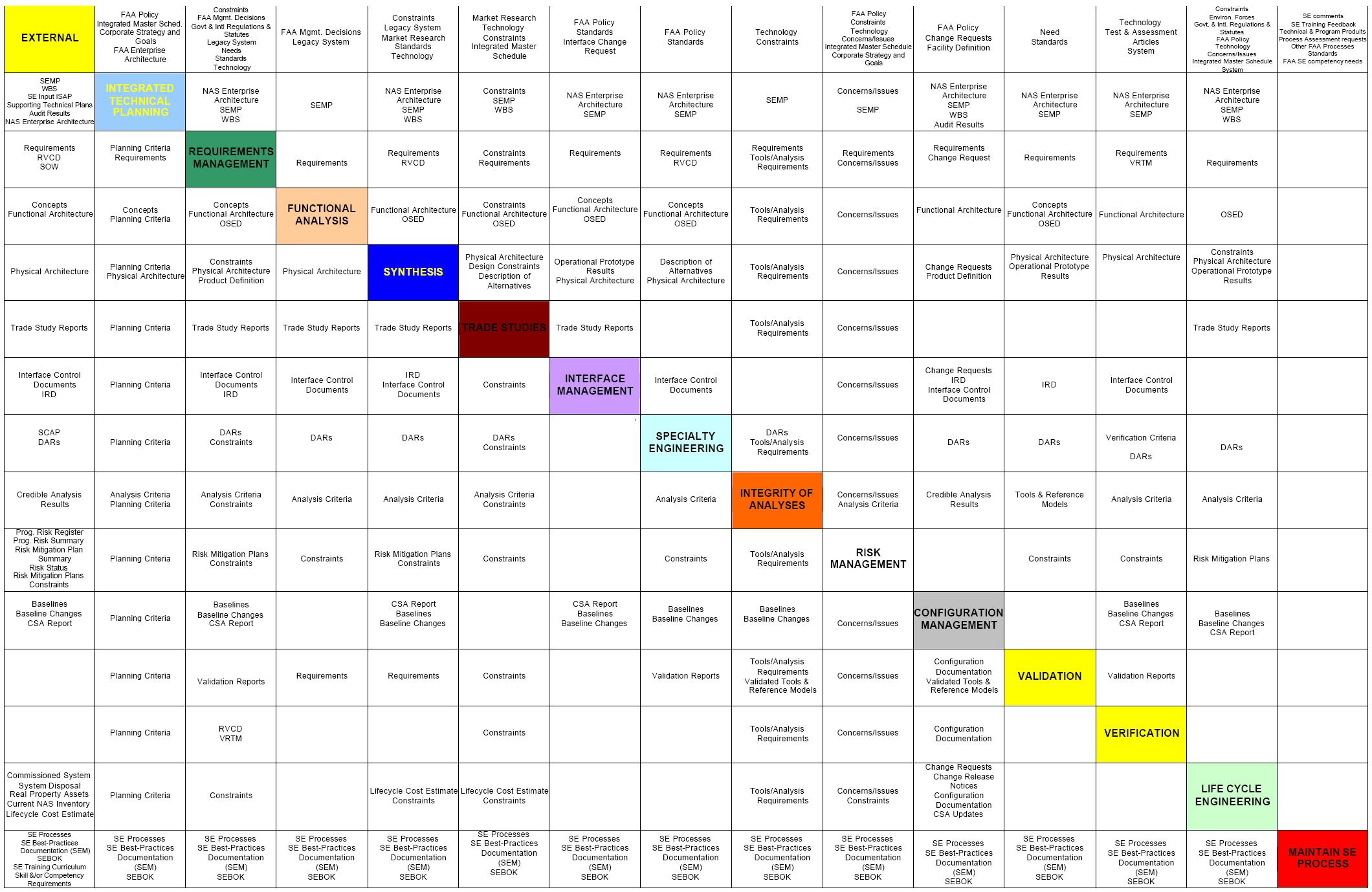 System Engineering Functional N2 Diagram